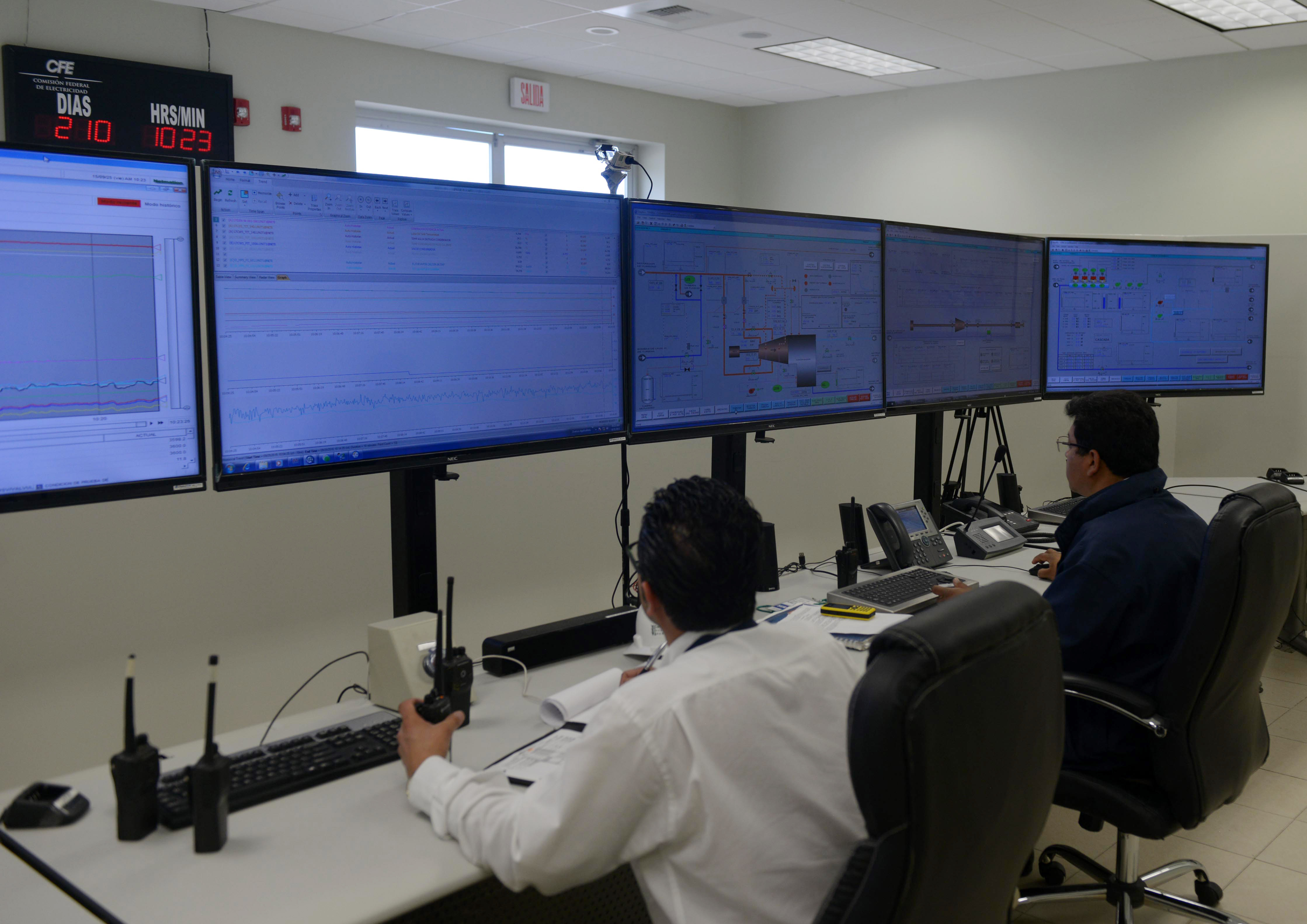 Inauguración de la Central Geotermoeléctrica Azufres III, Fase 1. Michoacán. 25 de septiembre de 2015.